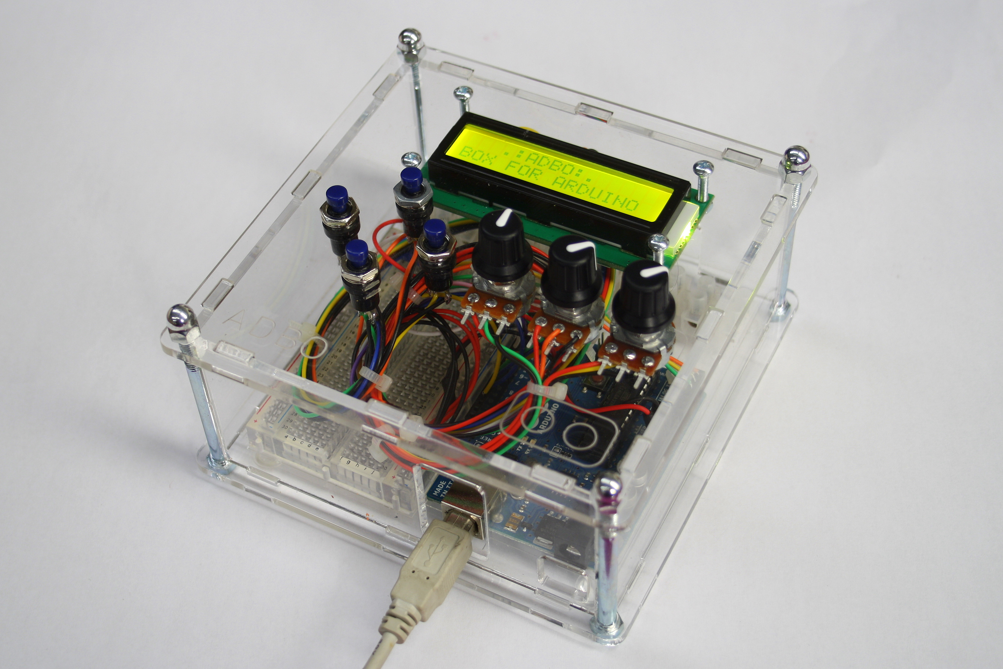 ADBO - Project Box for Arduino (laser cut)